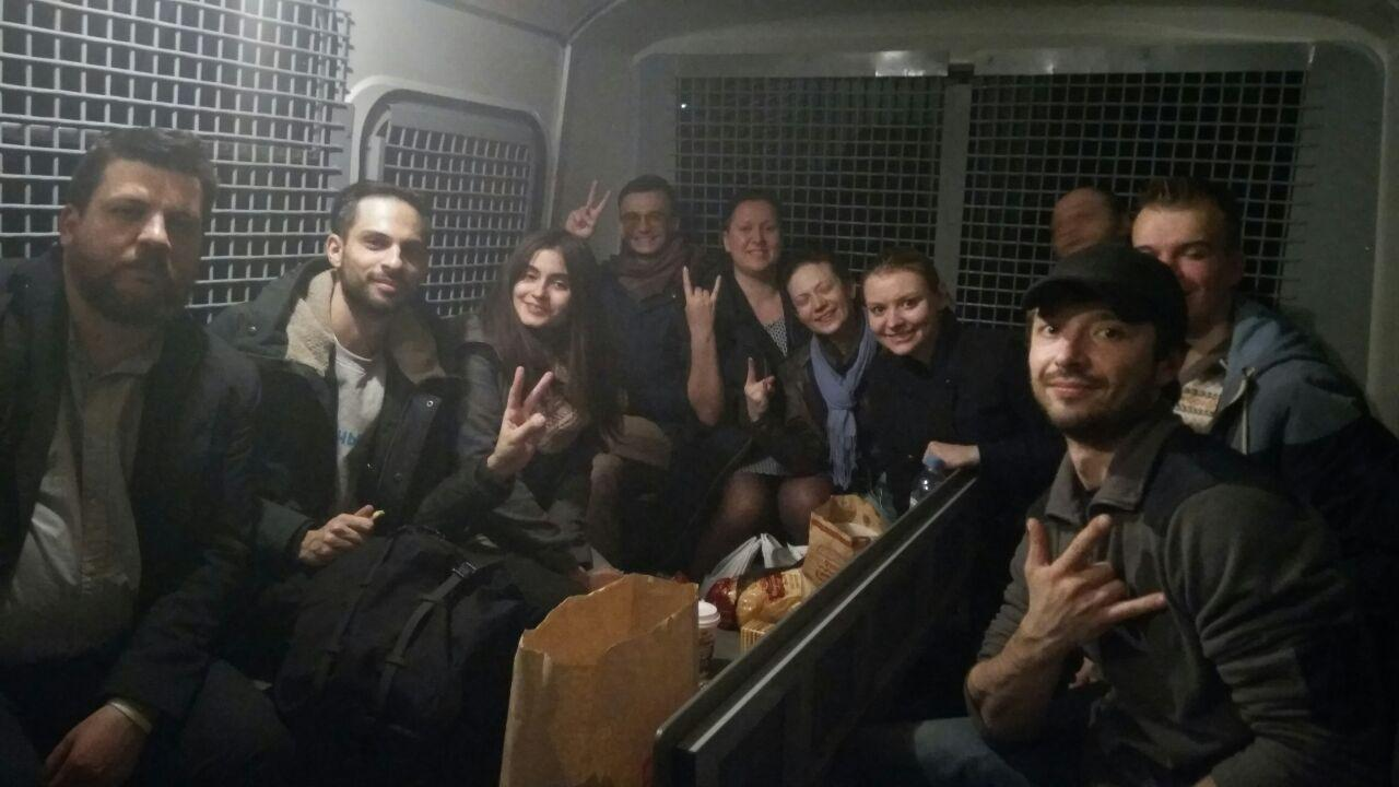 Employees Anti-corruption Foundation (ACF, FBK), volunteers and employees Newcaster.TV (@NewcasterTV) arrested for "resistance during the evacuation" in Moscow